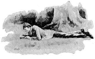 Sherlock Holmes